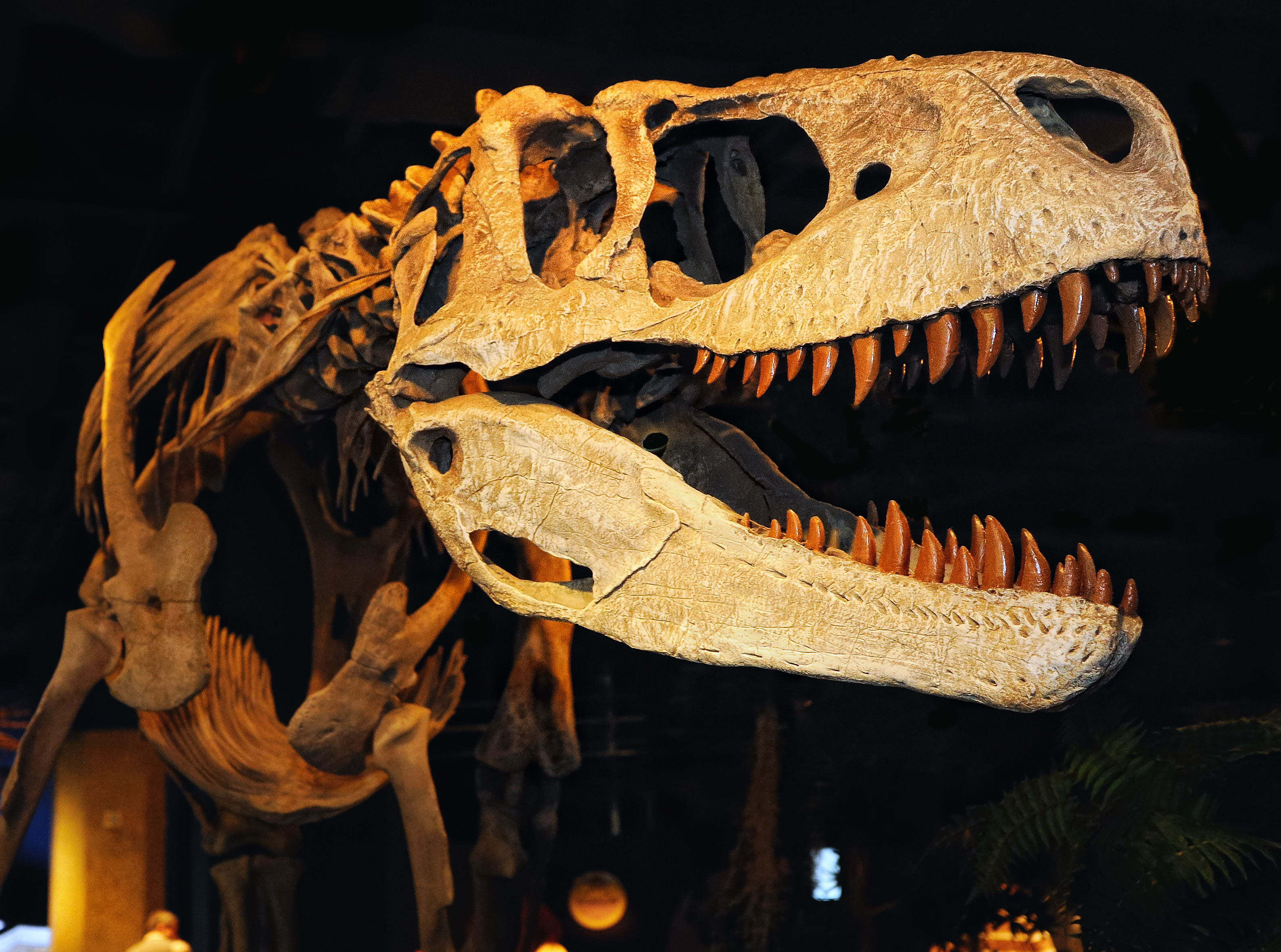 Appalachiosaurus Pronounced: APA-lay-CHEE-o-SAW-rus Meaning: ?Appalachian Lizard? Common name: Alabama tyrannosaur Age: Late Cretaceous Period Size: 22 feet long Diet: Carnivore Taken during field trip to McWane Science Center for flash photography class (Southern Institute of Photography, it's a great resource in Birmingham, Alabama)